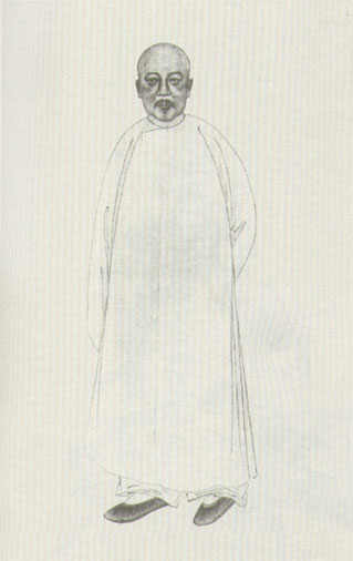 FAN Dangshi, scholar of the Qing Dynasty.